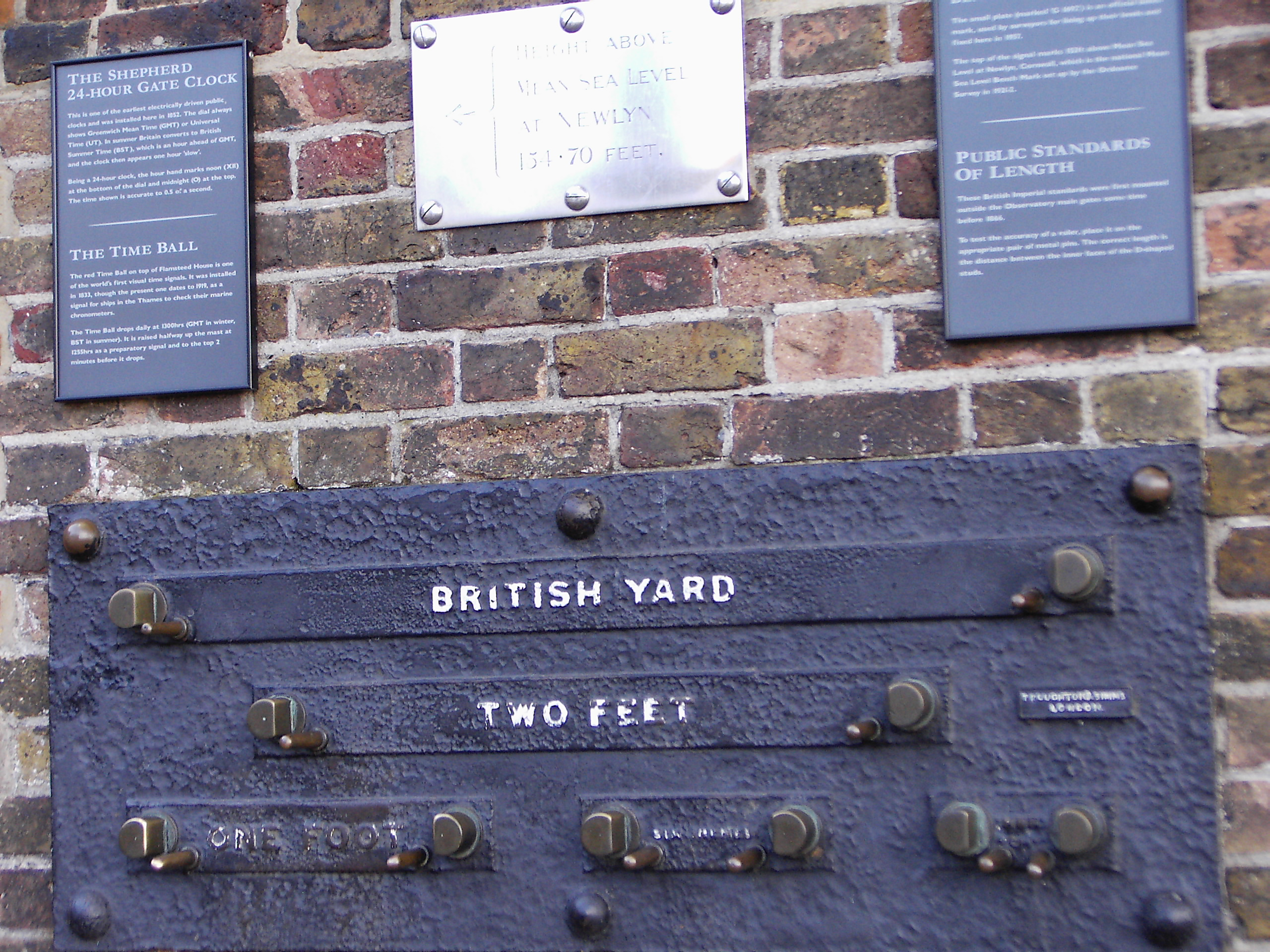 British length measures - 1 yard (3 feet), 2 feet, 1 foot, 6 inches (1/2 foot), 1 inch. Etalons on the wall of Royal Observatory Greenwich, London, Great Britain.